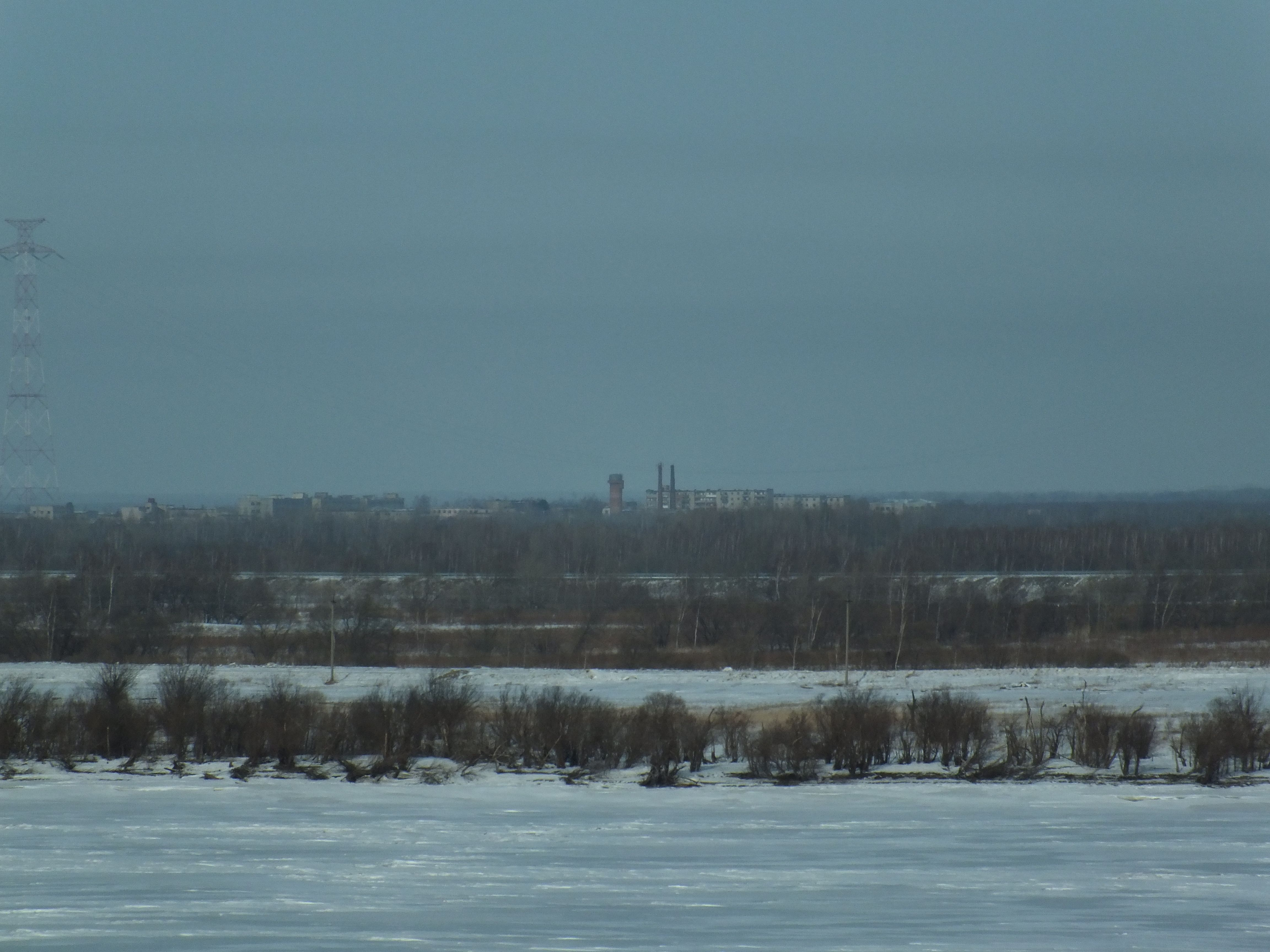 Amurskaya protoka